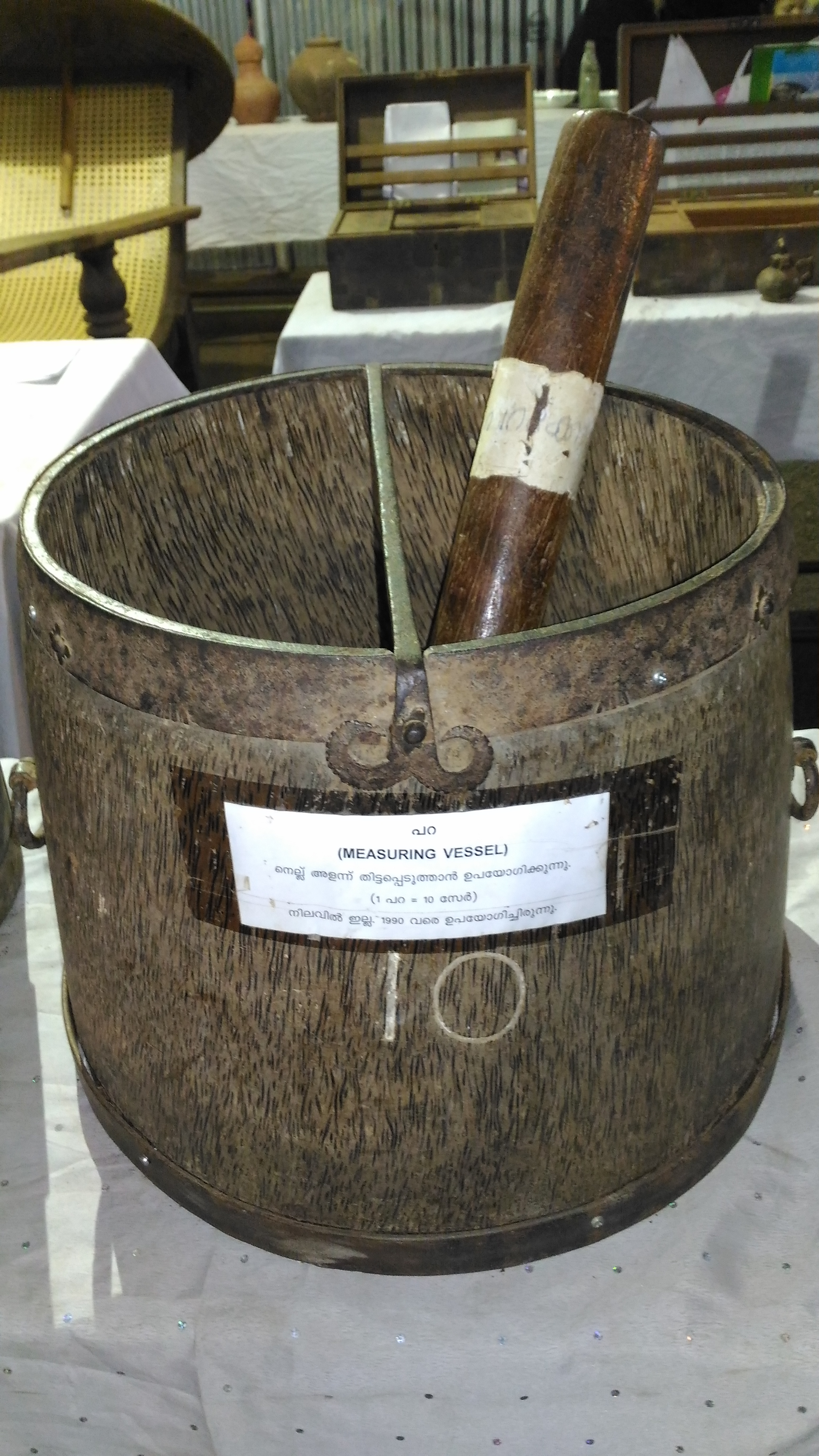 PARA - A wooden vessel used to measure grains etc...